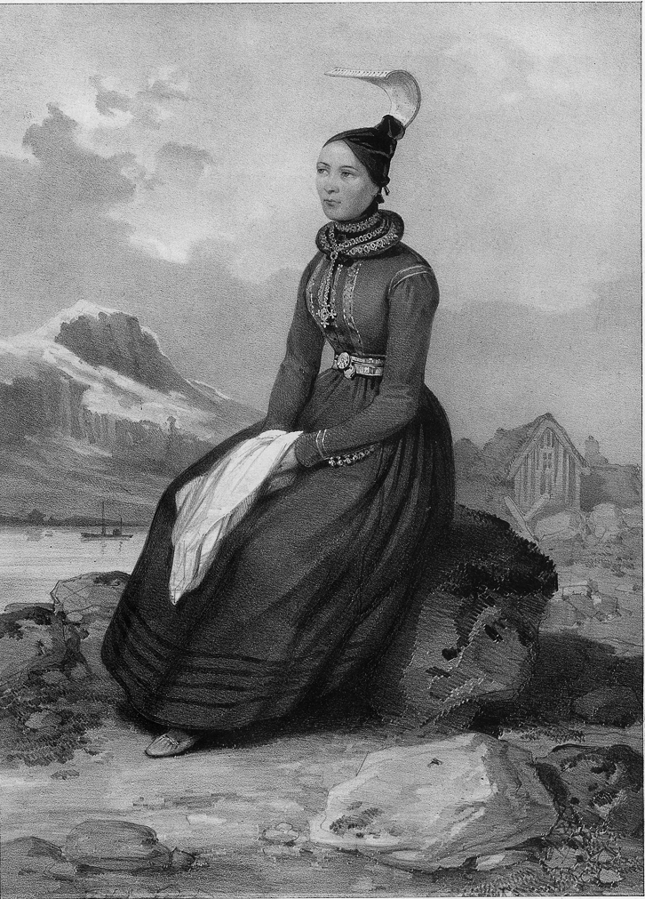 Drawing of an Icelandic girl in traditional costume.